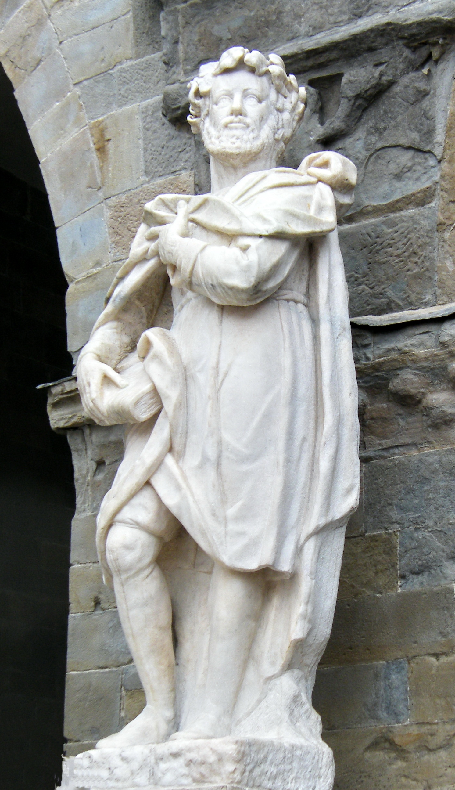 Statue of Torquato Tasso on Palazzo della Ragione Bergamo, Italy